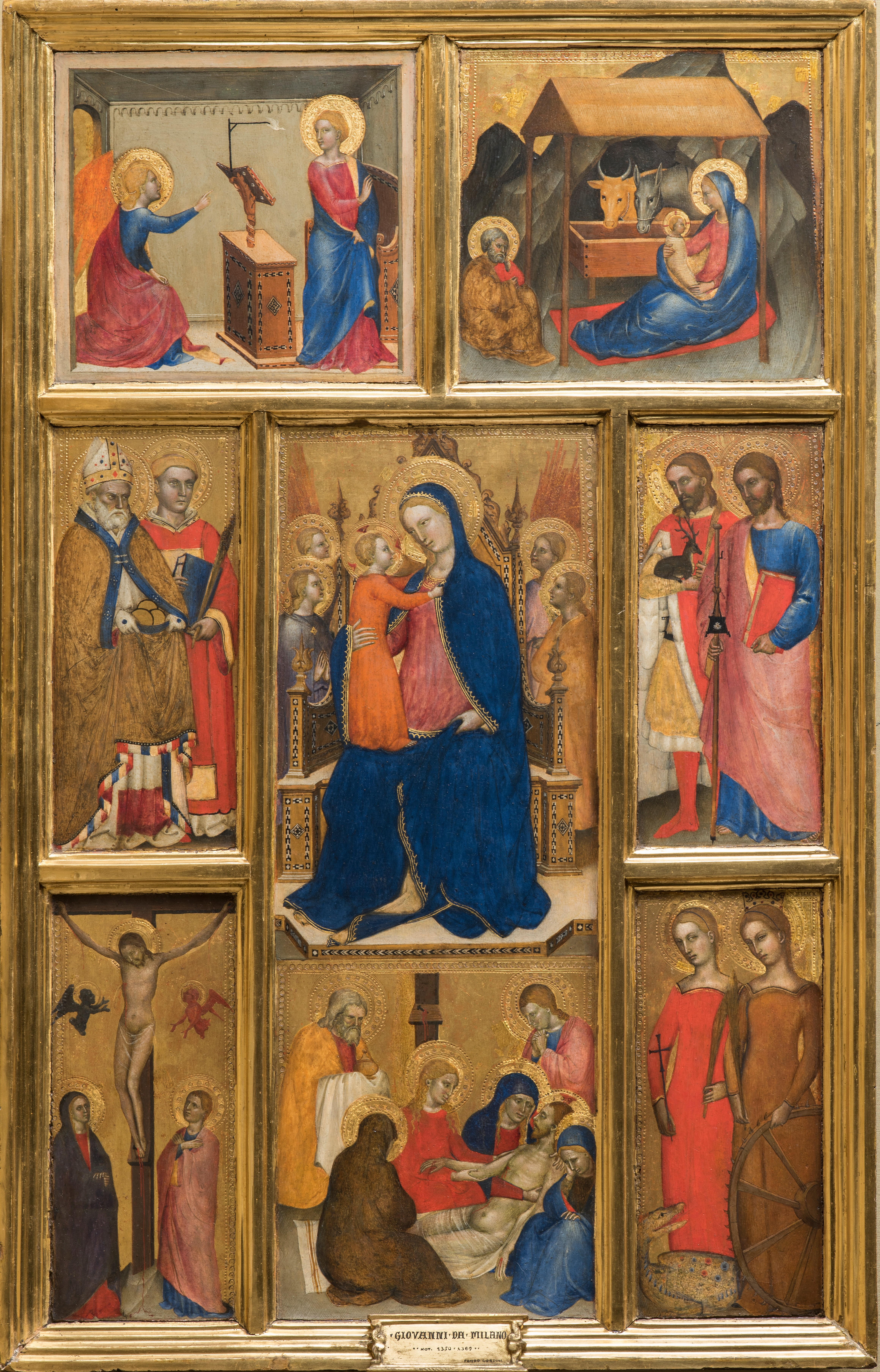 The Virgin and Child enthroned, with angels, saints and evangelical scenes. Rome, Galleria Corsini с.1355